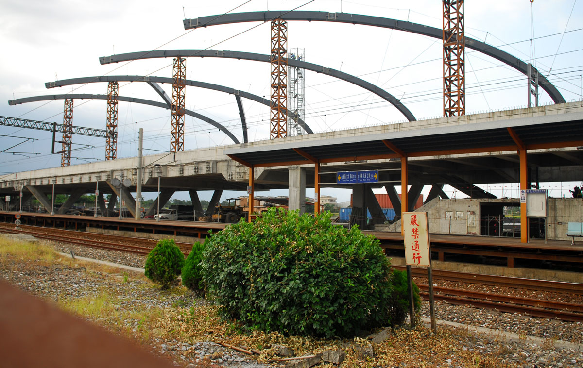 Dongshan Station is a local train station of Yilan Line, part of Taiwan's eastern rail line. To cooperate with the elevated rail line project, a new elevated station building is under construction behind current Dongshan station. Dongshan station will become the first elevated station in east Taiwan when the new building is finish constructing scheduled at 1st, Apr, 2008.